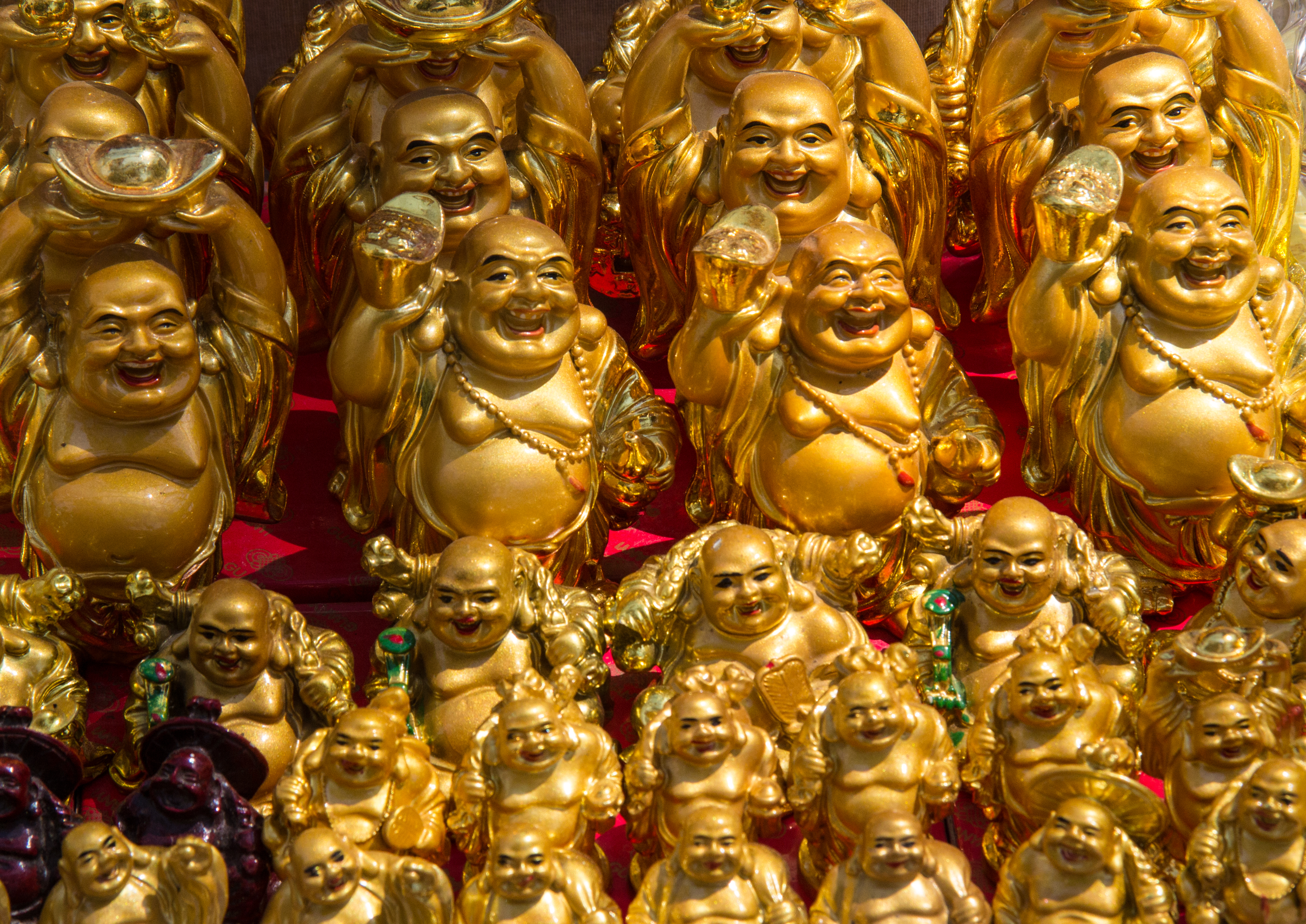 Strent vendors, Bogh Gaya